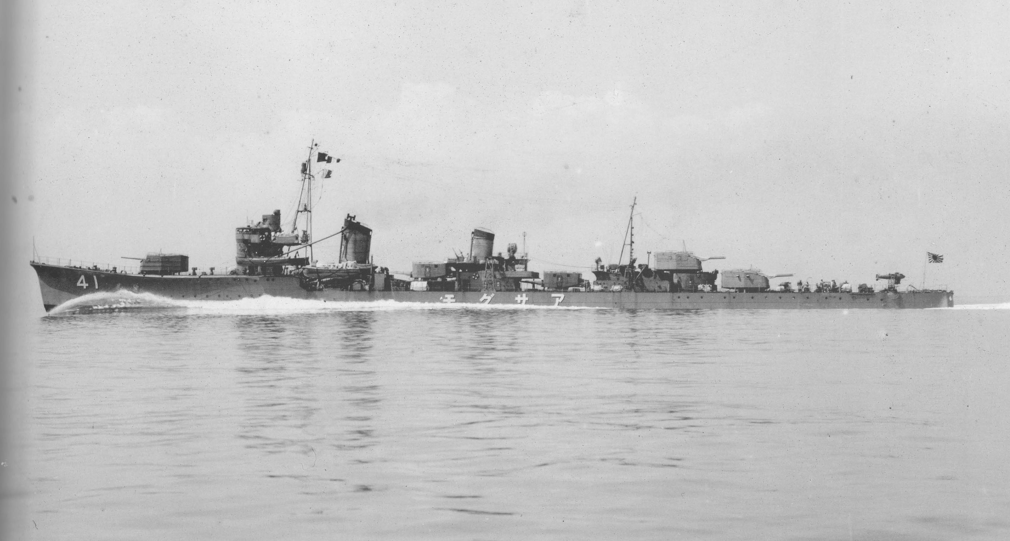 Imperial Japanese Navy destroyer Asagumo